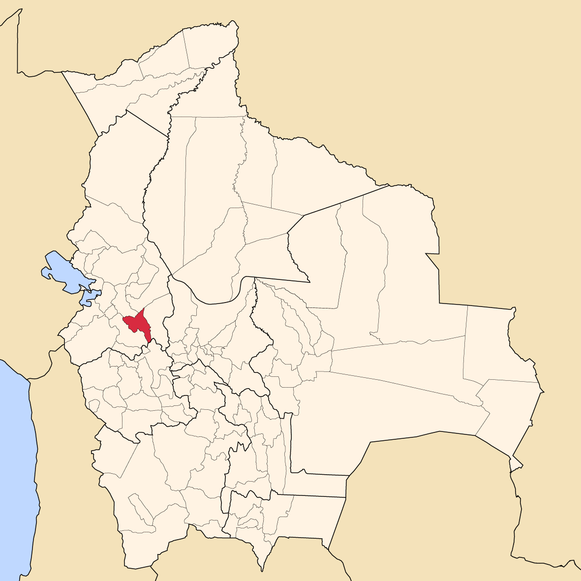 Map of Bolivia showing Loayza province, La Paz